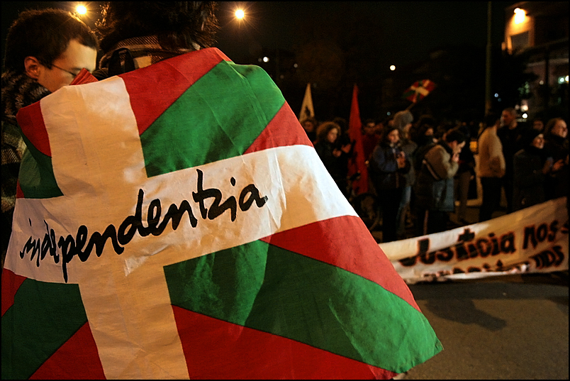 Basque manifestation in Montevideo, Uruguay.